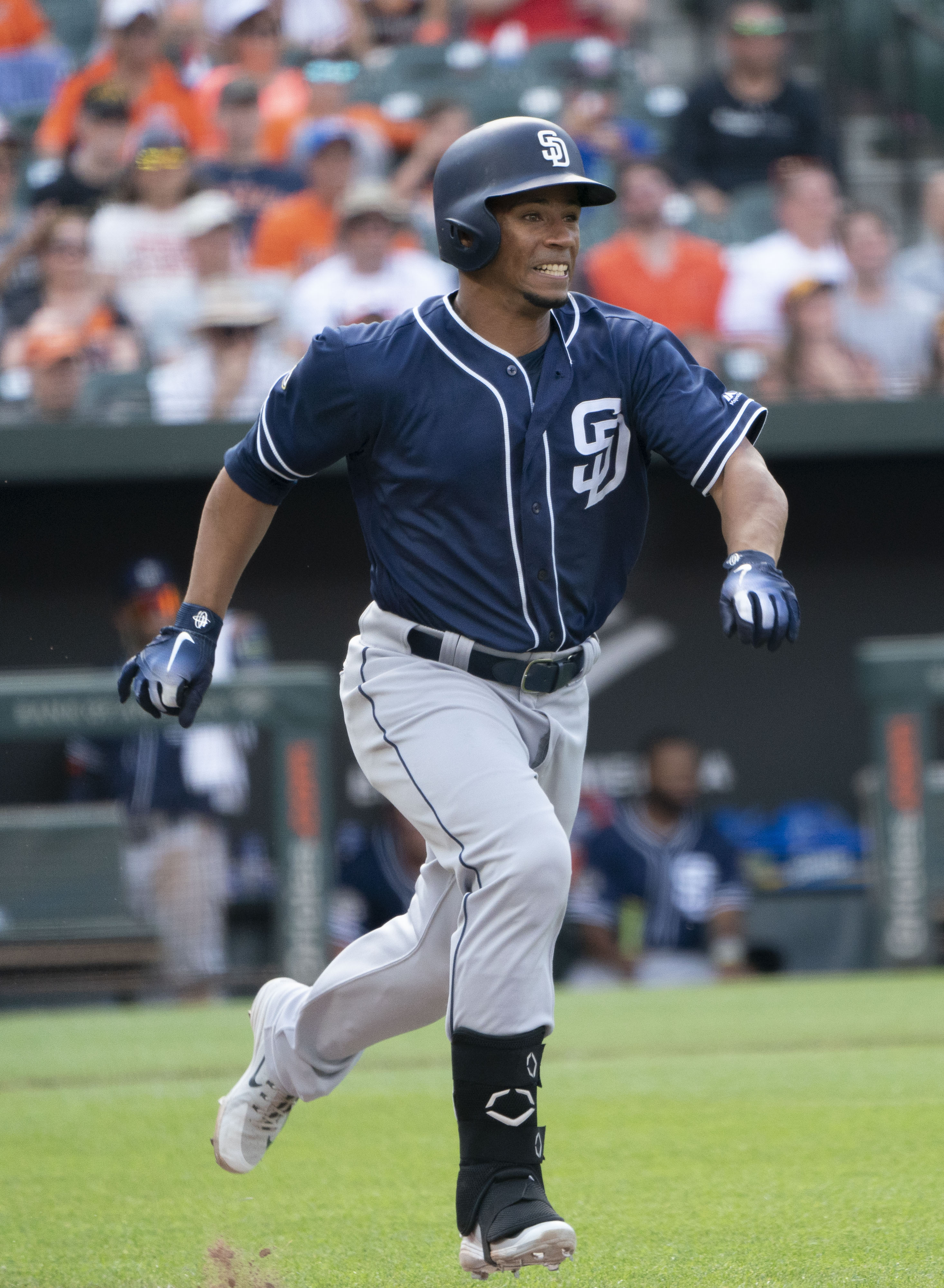 Francisco Mejia with the San Diego Padres during a 2019 game at Camden Yards in Baltimore